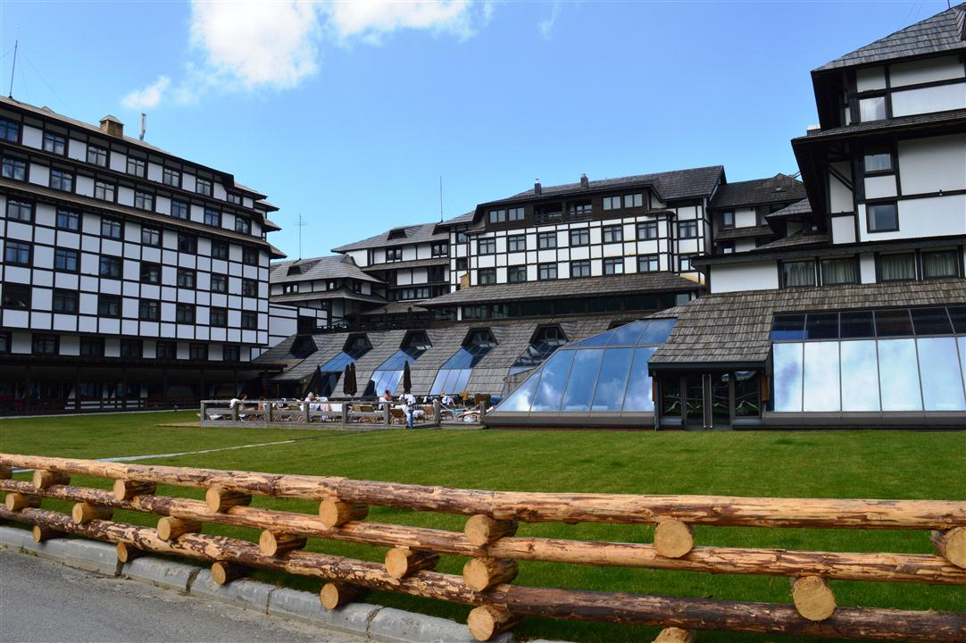 Raska Municipality - Kopaonik